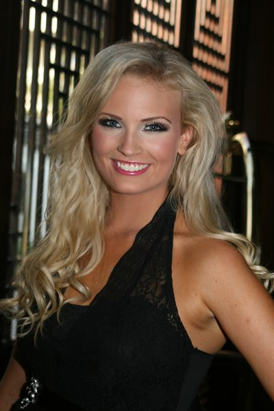 Miss Norway 2007 - Lisa-Mari Moen Junge in Miss World 07, Sanya, China